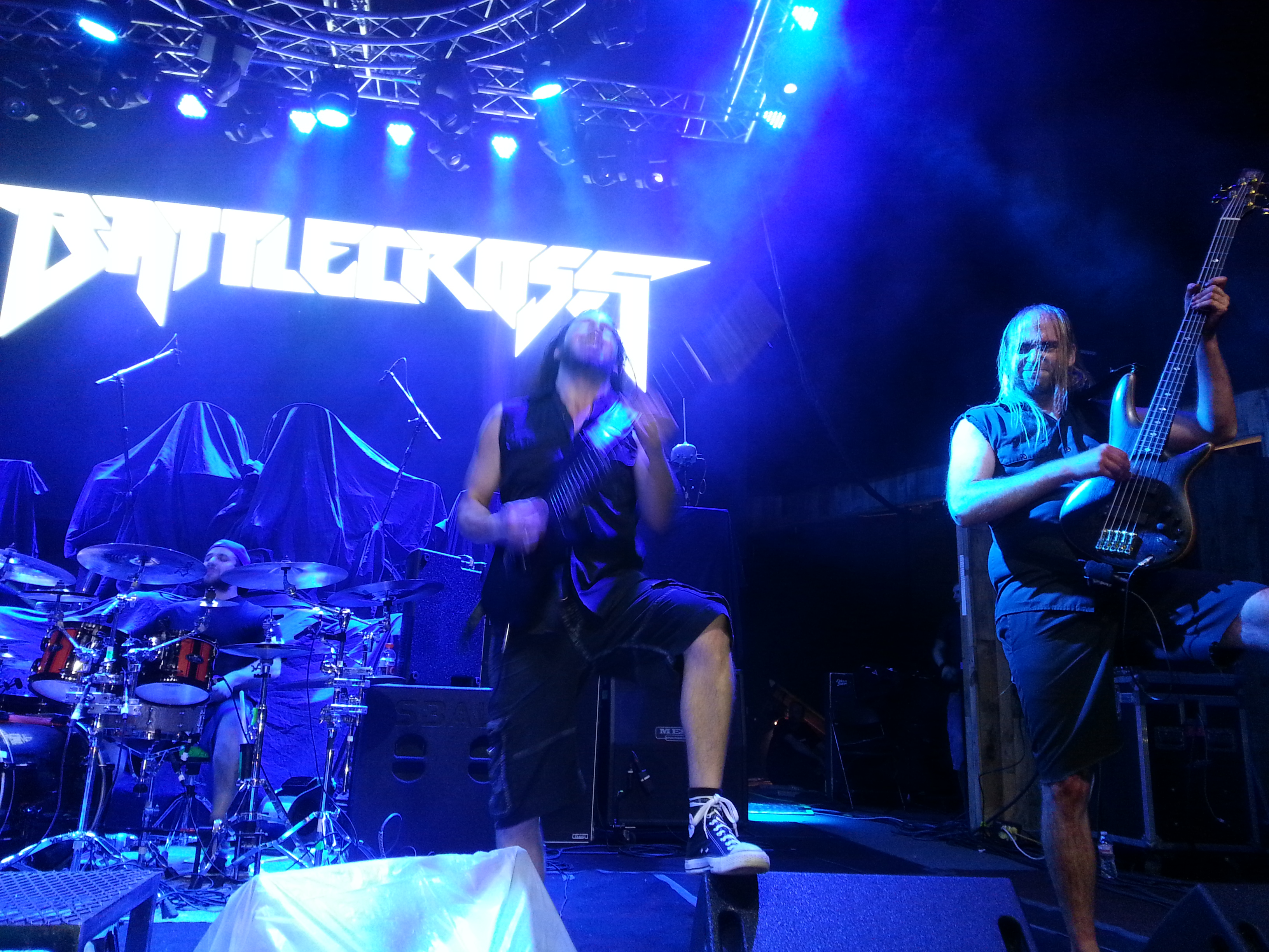 Battlecross